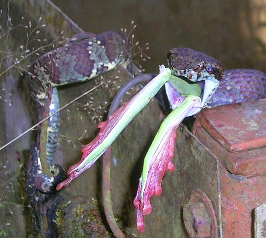 Malabar Pit Viper - Trimeresurus malabaricus with a Rhacophorus malabaricus. Location: Wayanad, Kerala